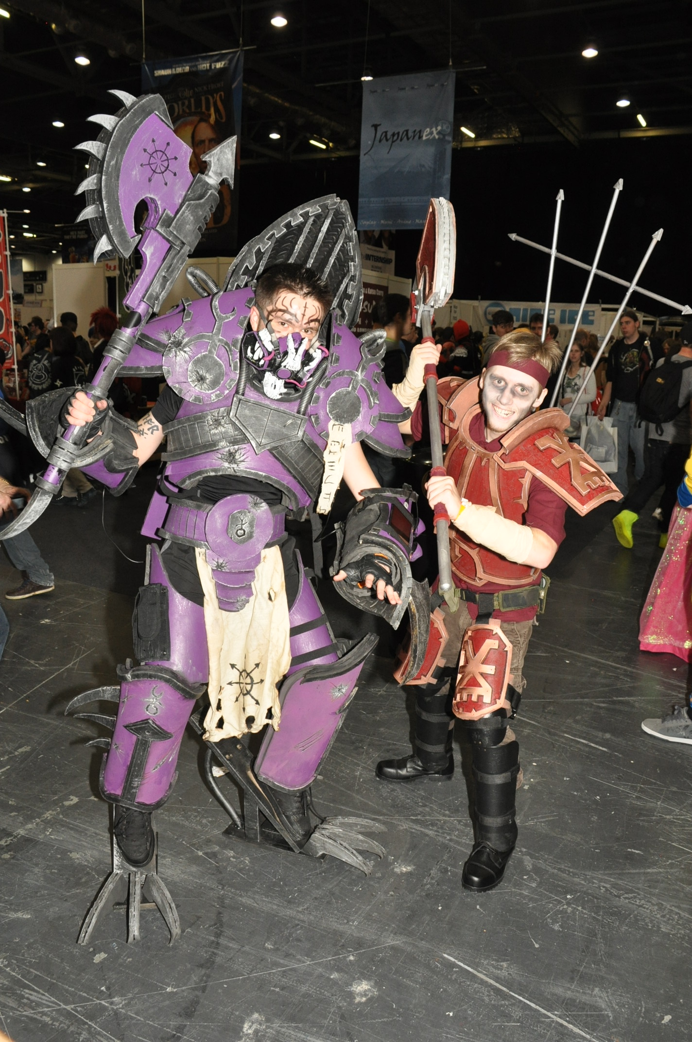 DSC_0354 Cosplay at the Summer 2013 MCM London Comic Con at the ExCeL Exhibition Centre.